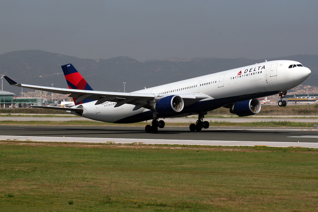 Barcelona spotting morning